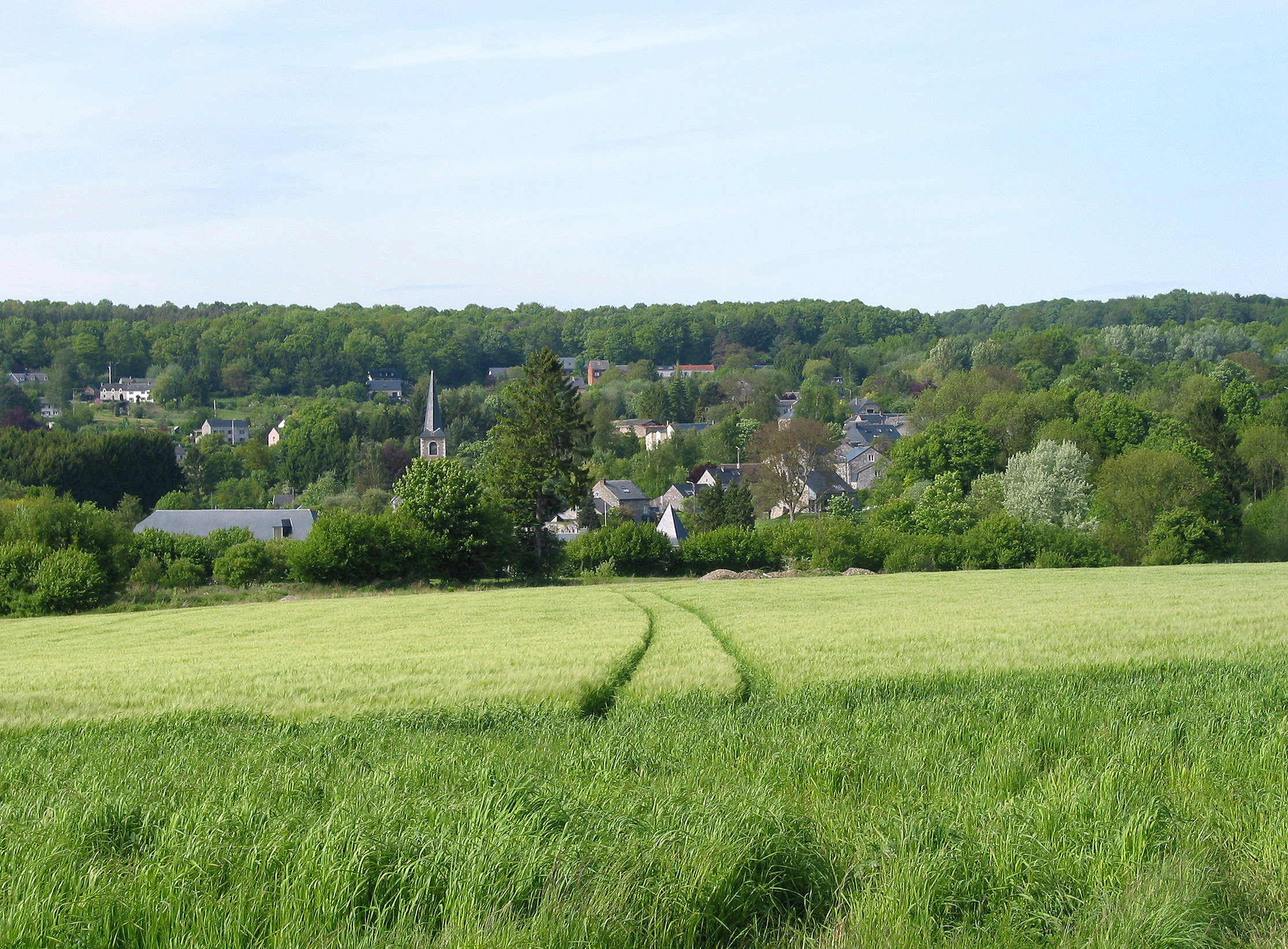 Mozet (Belgium), view on the village.